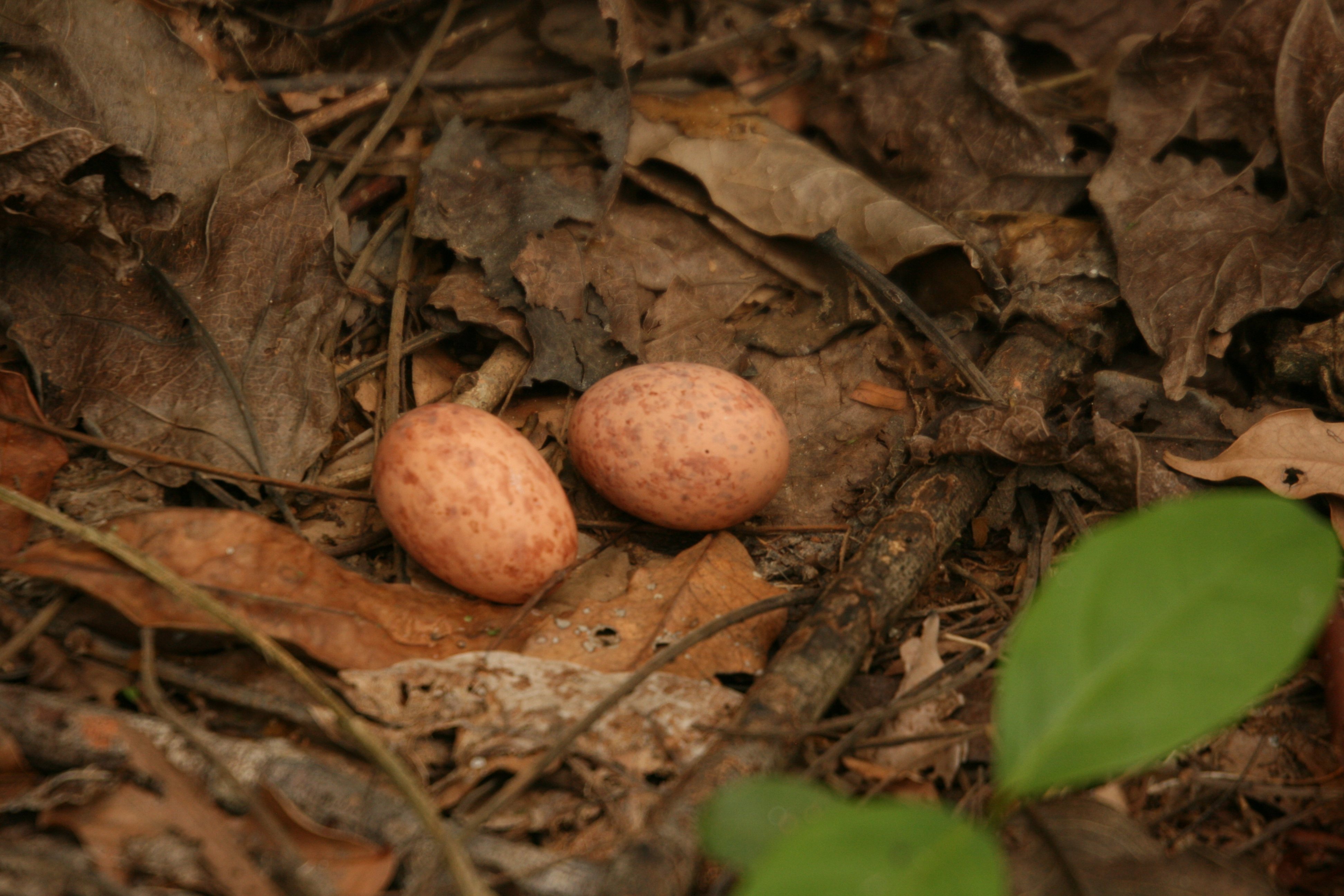 Nest and eggs of Pauraque, Nyctidromus albicollis in southeast Brazil